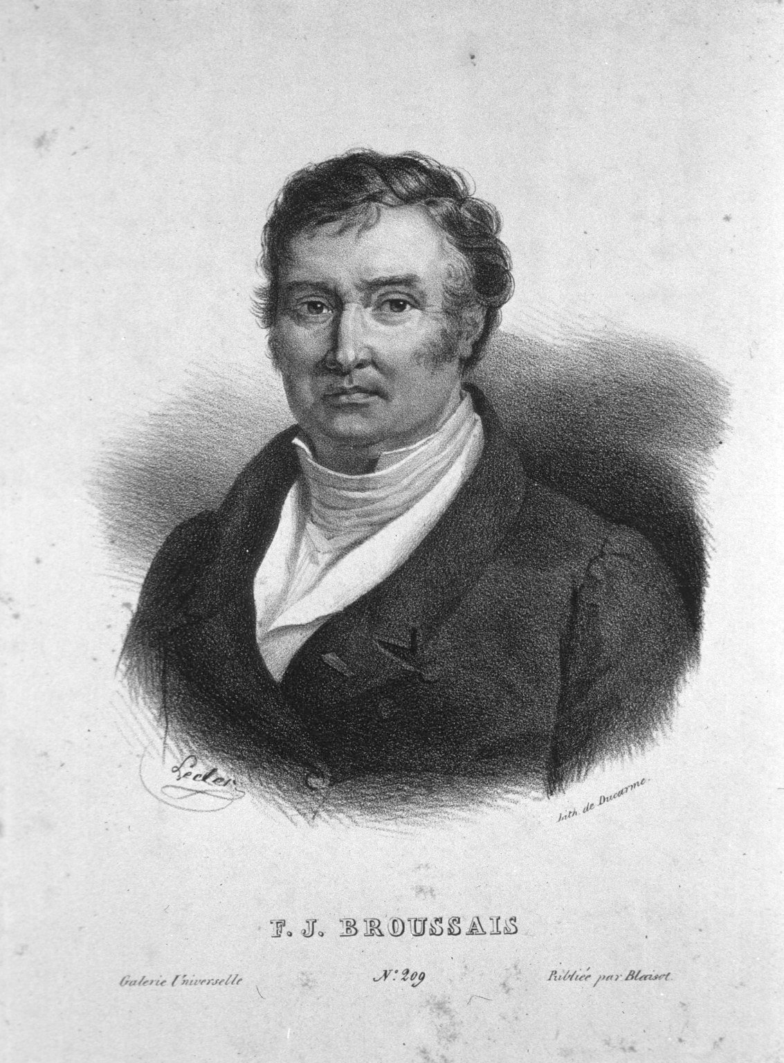 François-Joseph-Victor Broussais, French physician